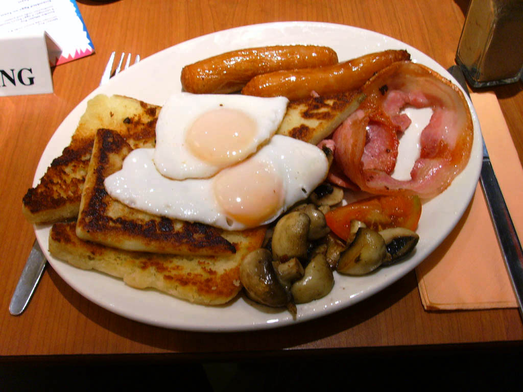 Photograph was taken by me in Belfast, Northern Ireland, UK in 2007.